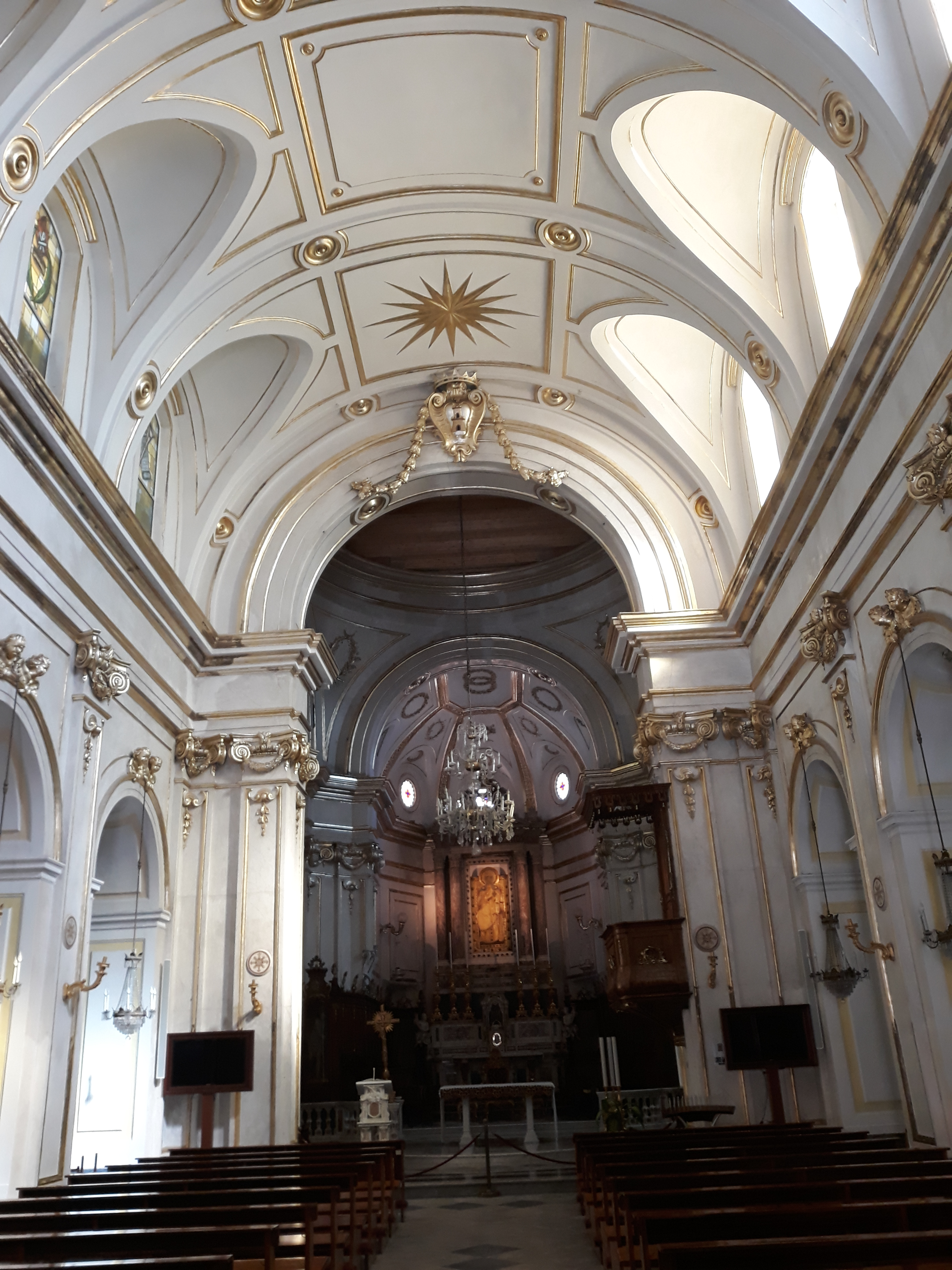 The church of Santa Maria Assunta, in the village of Positano, Campania, Italy.